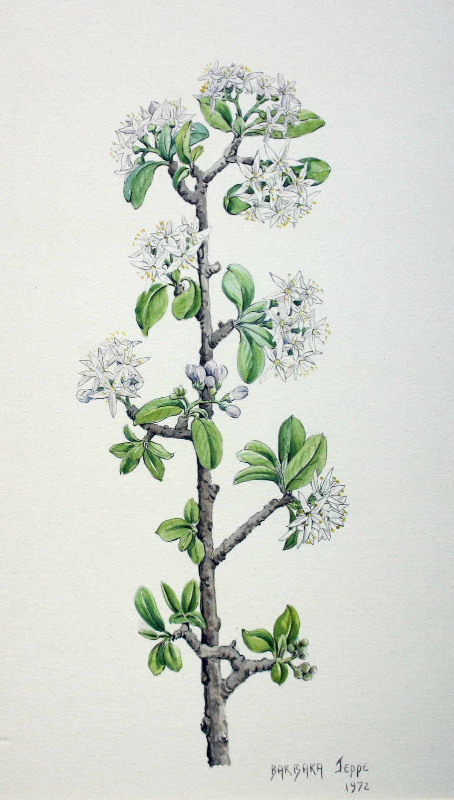 Ehretia rigida, South African tree